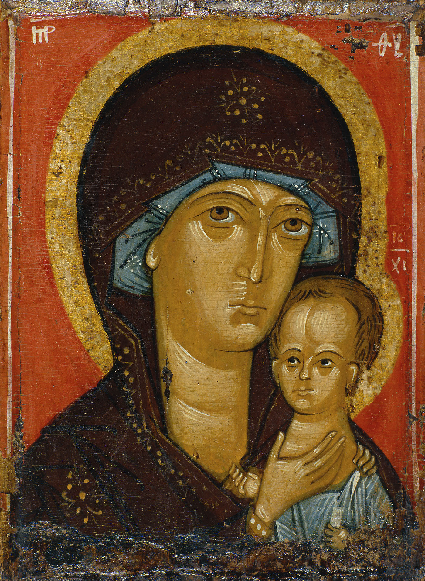 Our Lady Petrovskaya